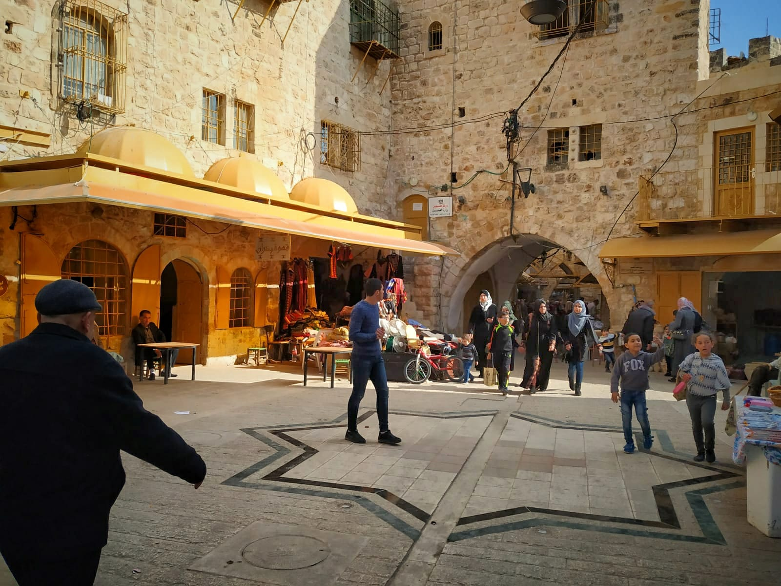 The Old City of Hebron